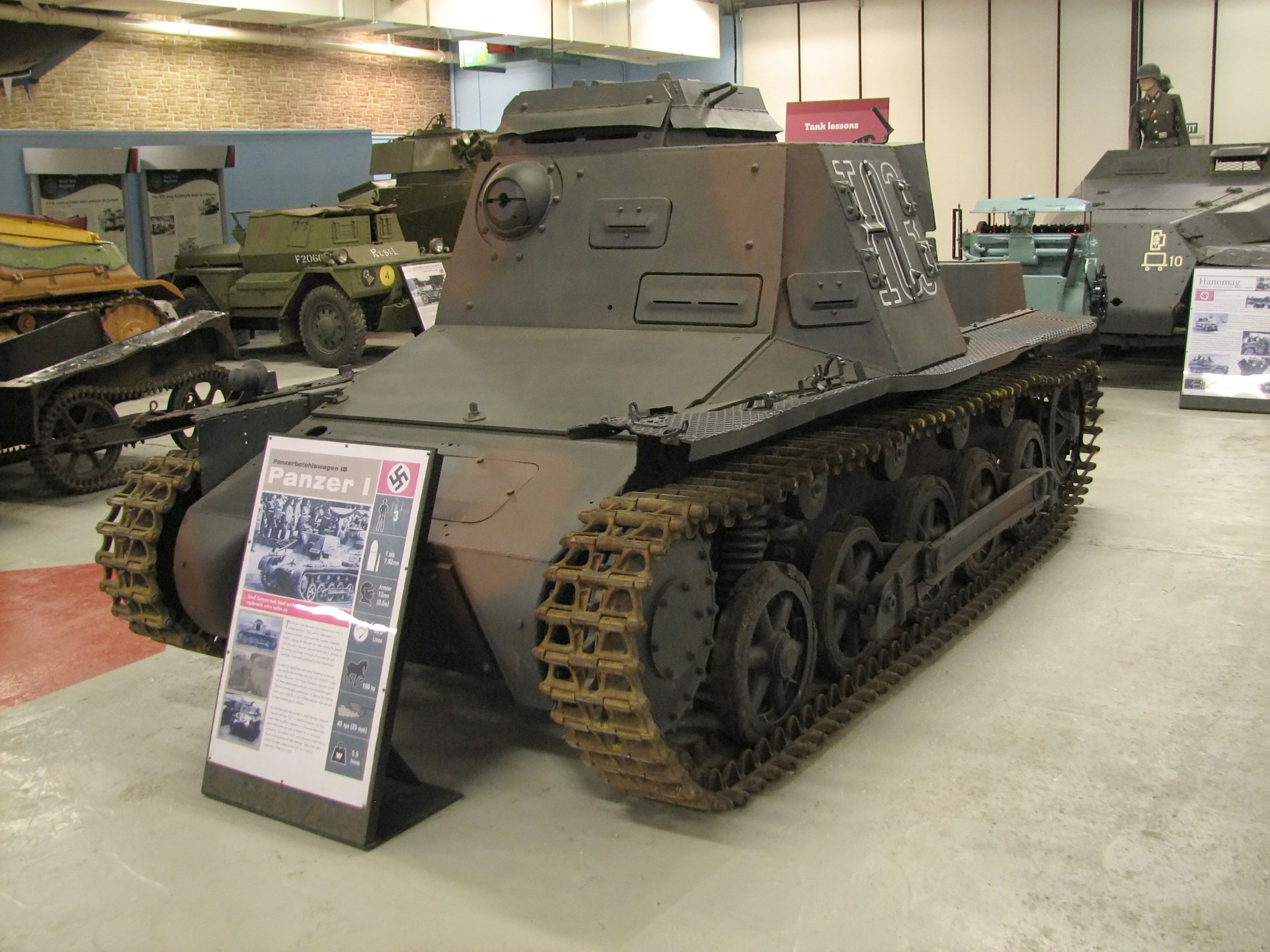 Panzer-Befehlswagen I Ausf B at the Bovington Tank Museum